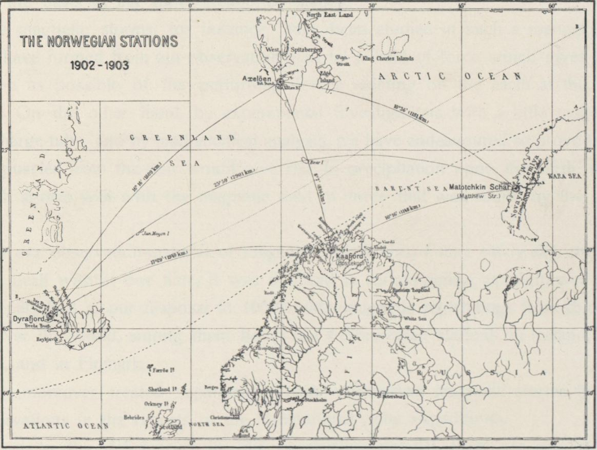 Map showing the observatories for the Norwegian Aurora Polaris Expedition 1902-1903 From the book, The Norwegian Aurora Polaris Expedition 1902-1903, Volume 1: On the Cause of Magnetic Storms and The Origin of Terrestrial Magnetism, Section 2. Chapter VI: front page.